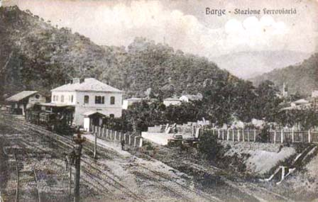 Barge, train station